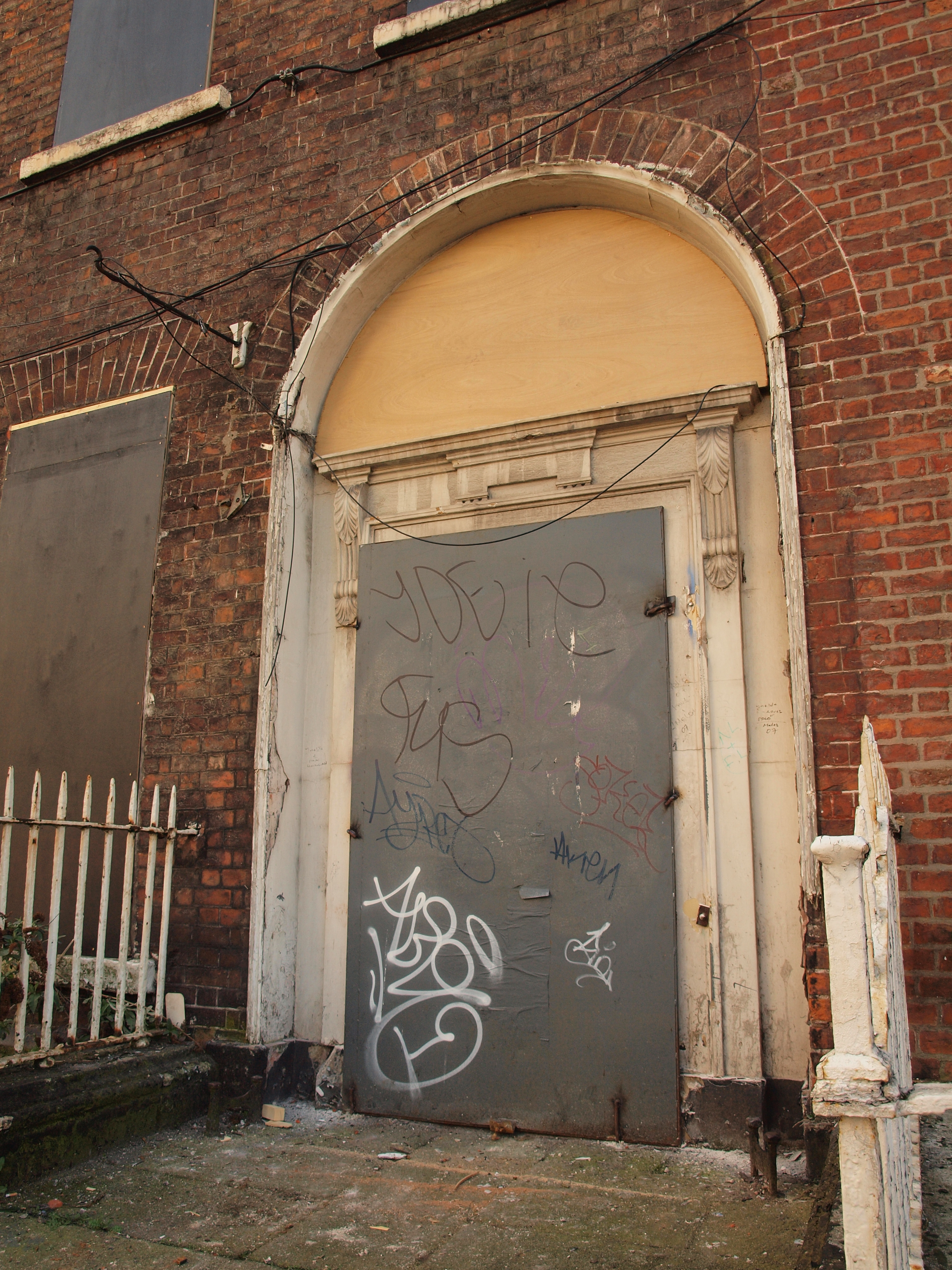 Building which housed An Stad